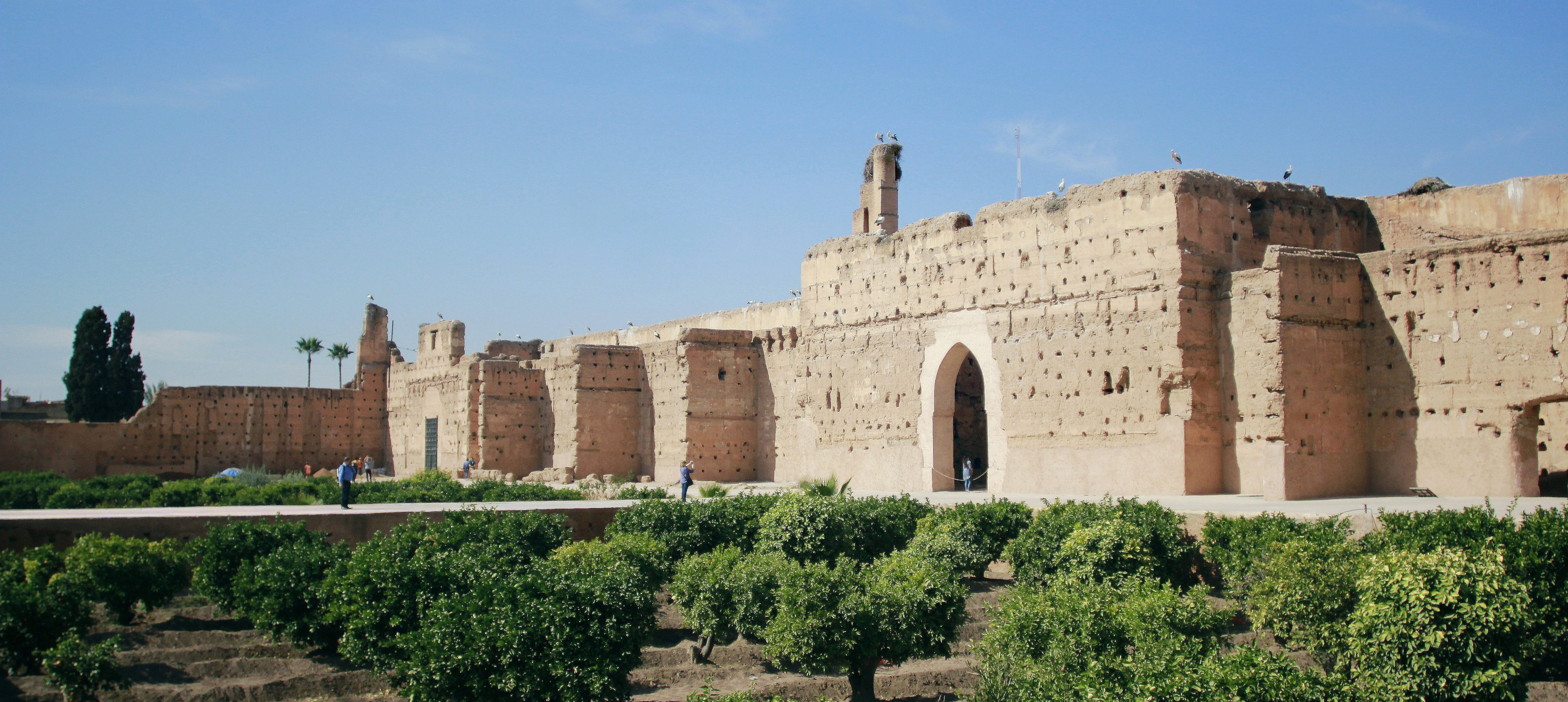 El Badi Palace in Marrakesh, Morocco